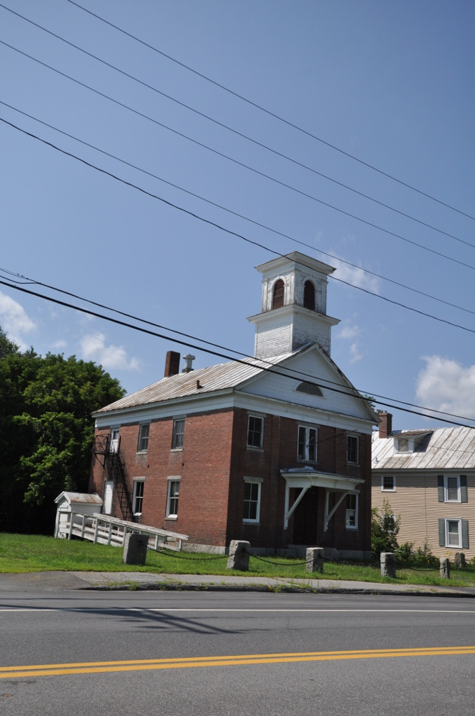 The former Bloomfield Academy in Skowhegan, Maine.